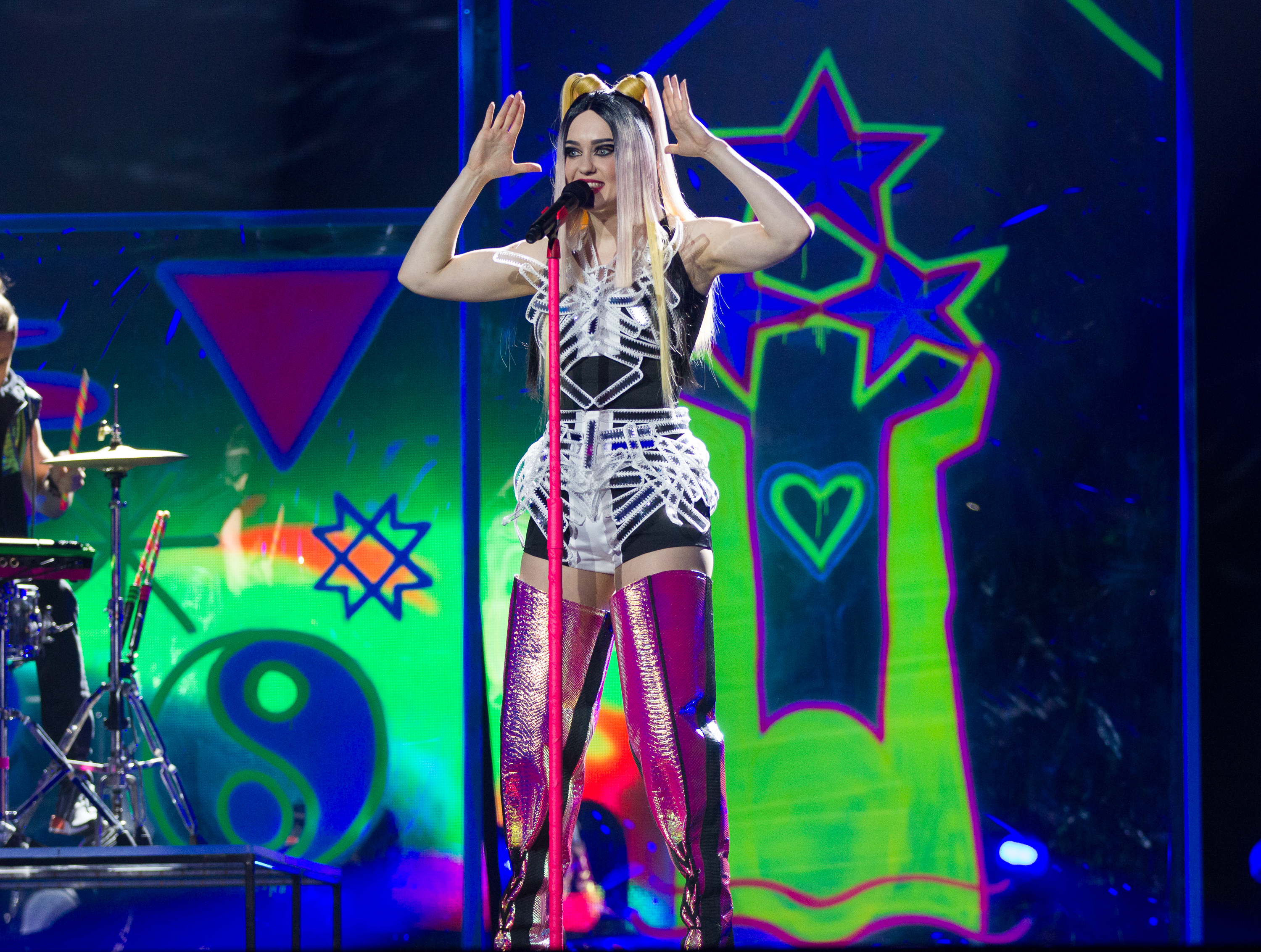 Triana Park representing Latvia with the song "Line" during a rehearsal before the first semi final of the Eurovision Song Contest 2017 in Kiev.